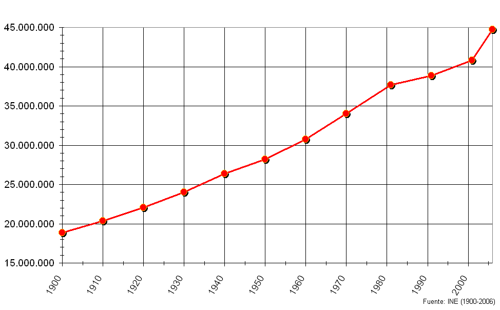 Spain's population (1900-2005).